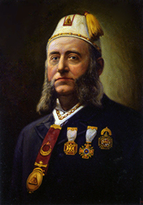 Dr. Walter Millar Fleming (June 13, 1838, Portland, Maine - September 9, 1913, Mount Vernon, New York ) a prominent physician and surgeon, was also co-founder of the Shriners, a Masonic Order along with William J. Conlin. Fleming is listed as member #1 in the 1904 Report of Mecca Temple, New York, New York.